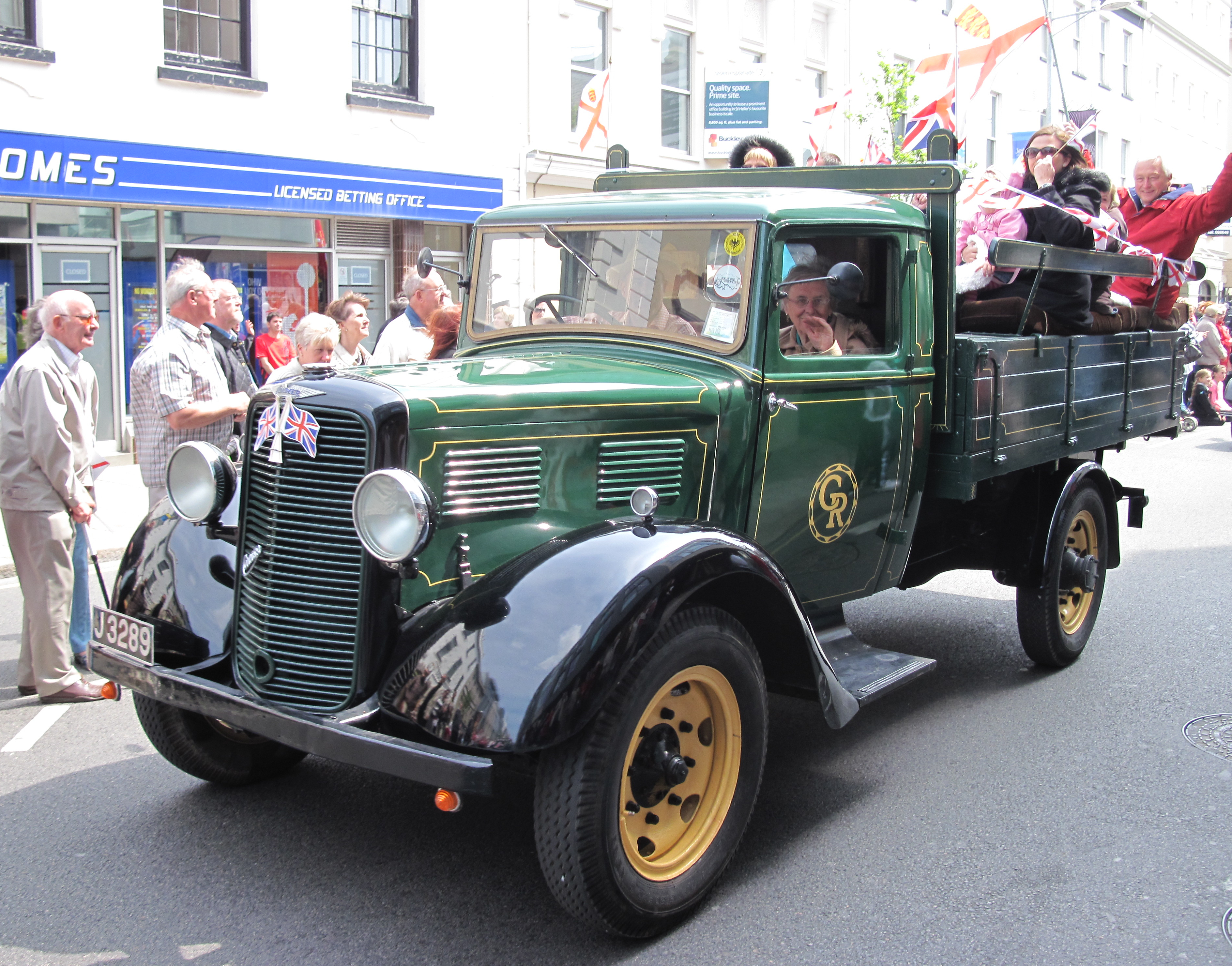 Commer N1Liberation Day, 9 May 2010, Jersey